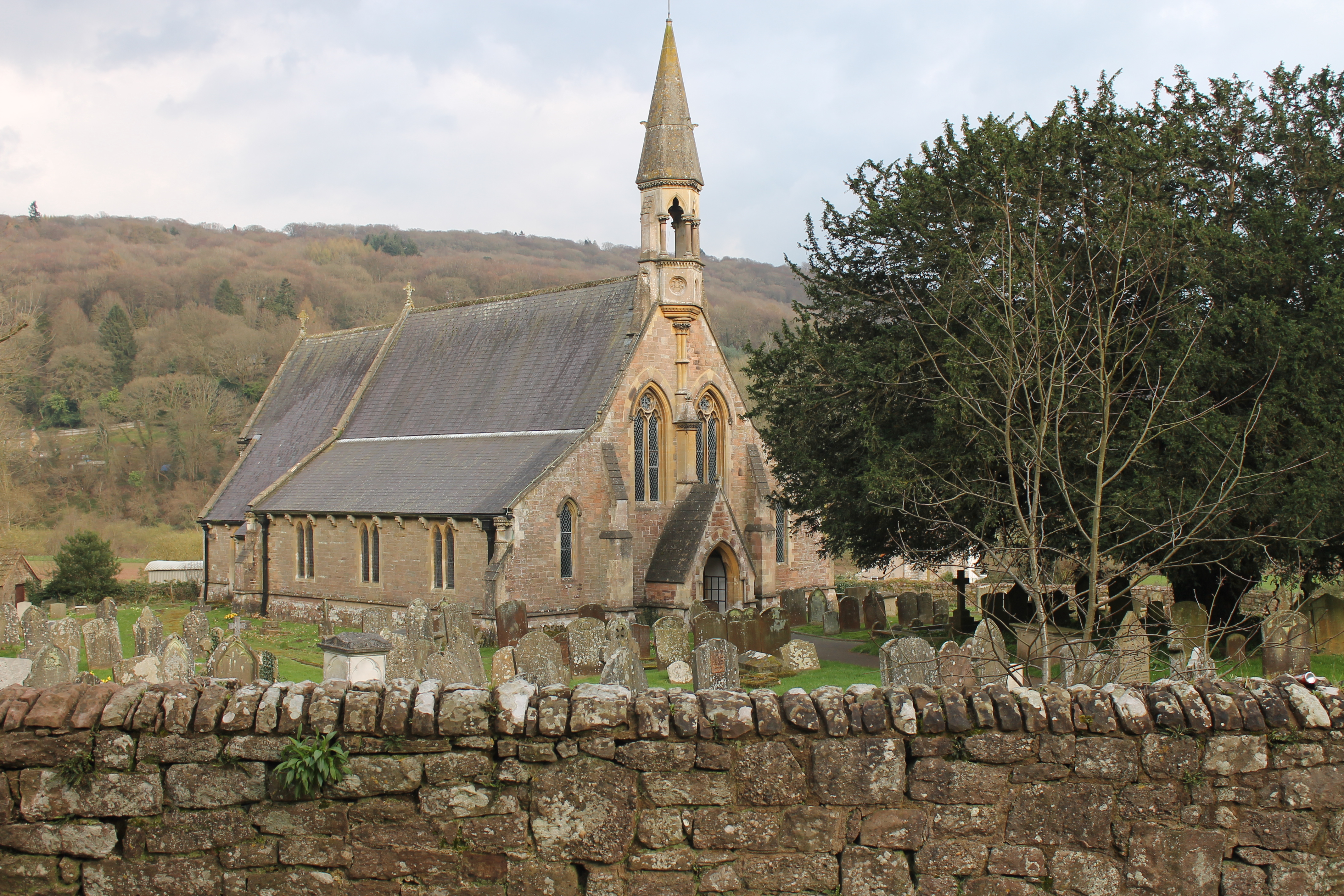 The village of Llandogo, Monmouthshire, Wales, with it's church: St Oudoceus.